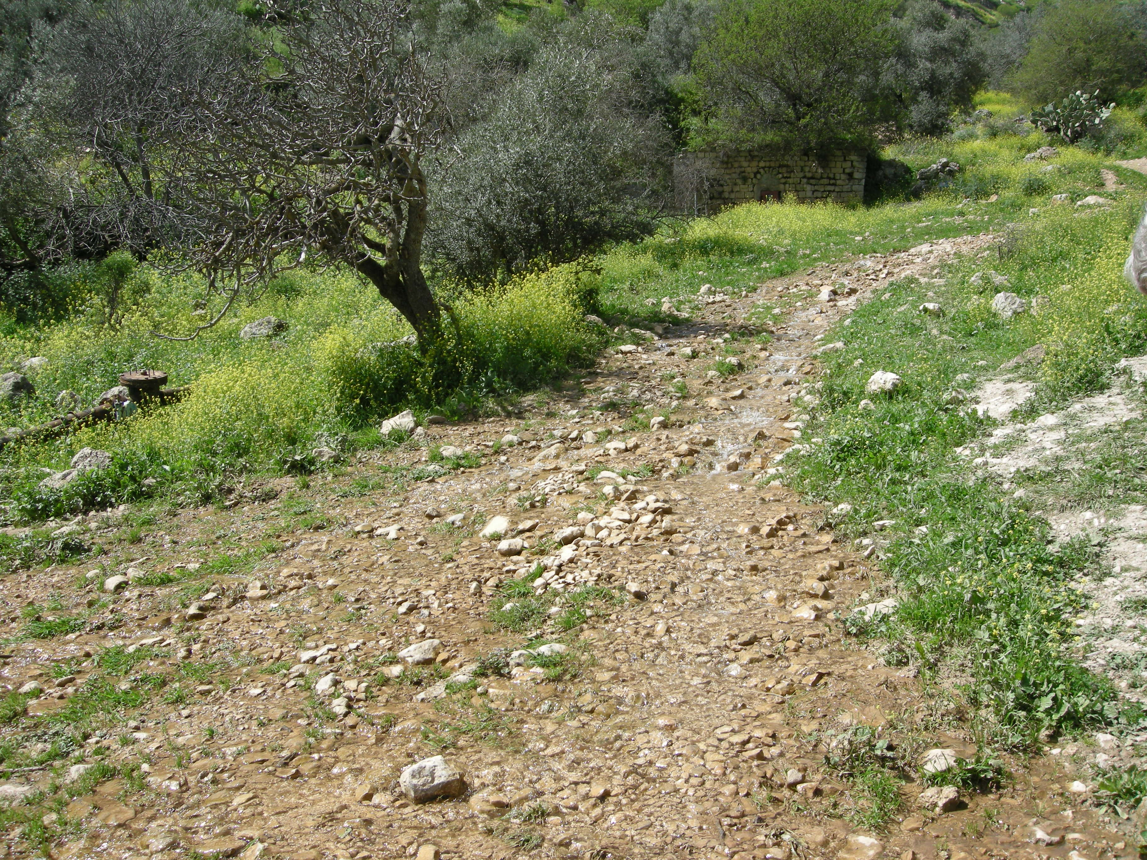 Bloom in the rivulet of Rosh Pina